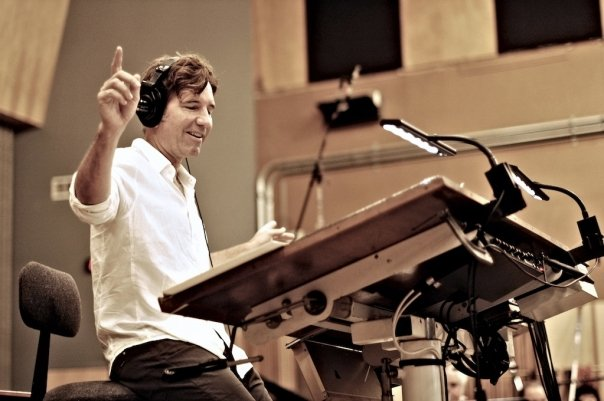 Roger Neill conducting at a recording session for the TV series King of the Hill at the Newman Scoring Stage on the 20th Century Fox studio lot